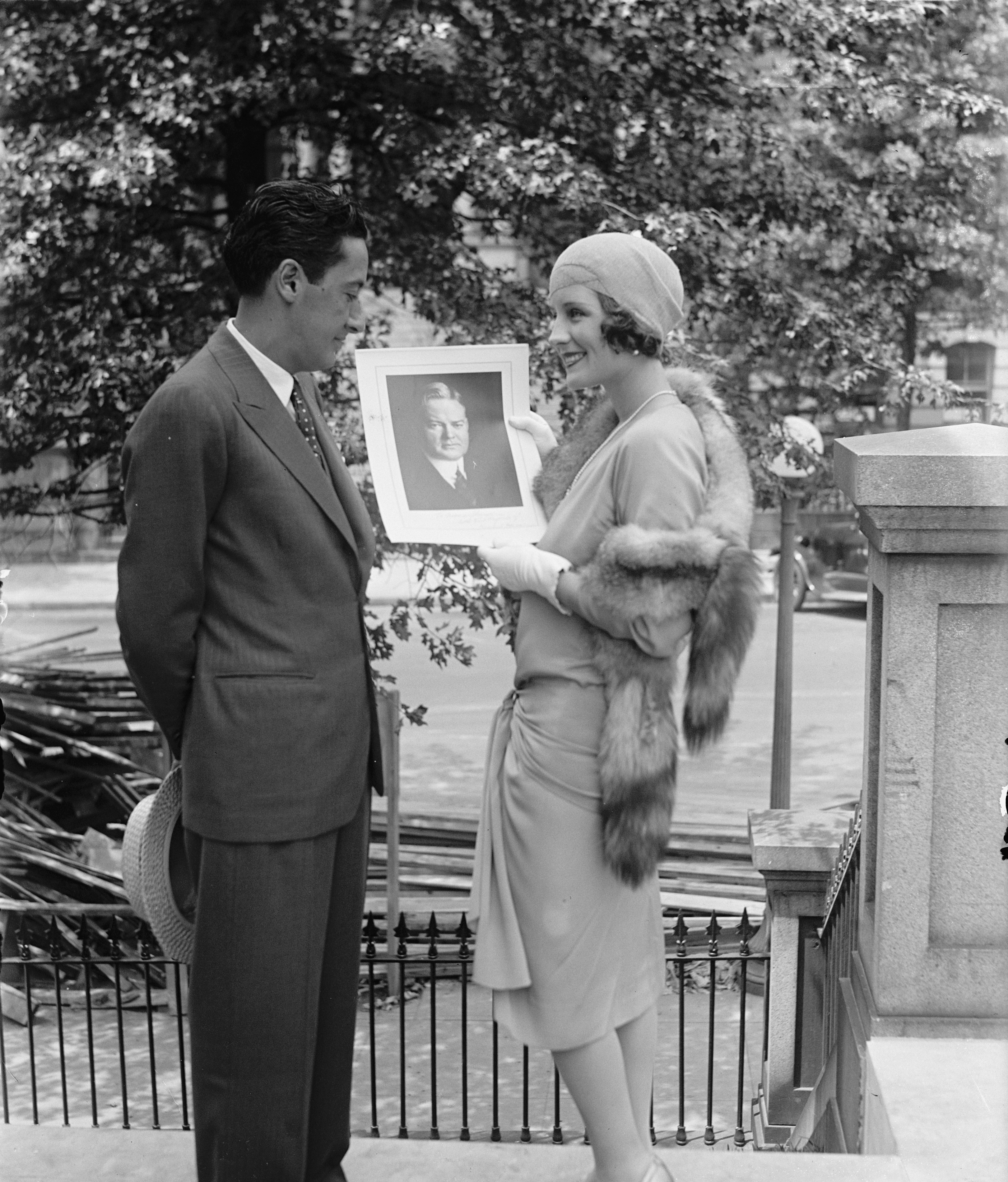 Mr. and Mrs. Thalberg (Norma Shearer), 7/25/1929. They are holding a photograph of U.S. President Herbert Hoover.